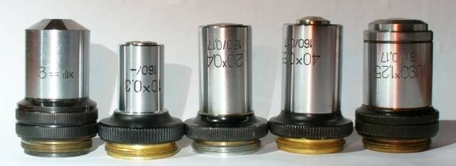 Microdcope objectives.